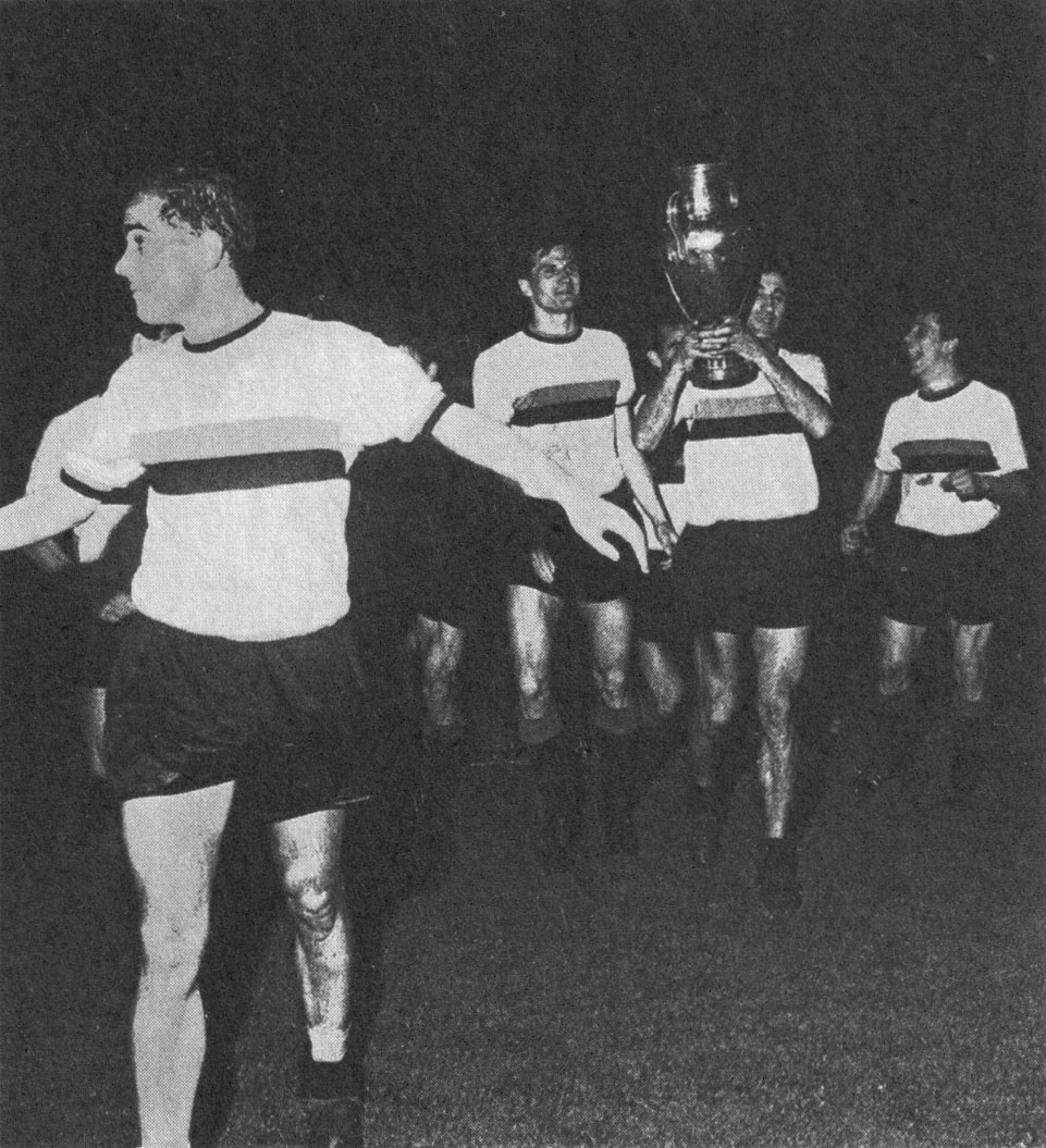 Milan, San Siro, May 27, 1965. From left to right: Inter Milan's Luis "Luisito" Suárez Miramontes, Giacinto Facchetti, Joaquín Peiró Lucas and Gianfranco Bedin with the trophy of the 1964–65 European Cup at the end of the victorious final versus Benfica (1-0).